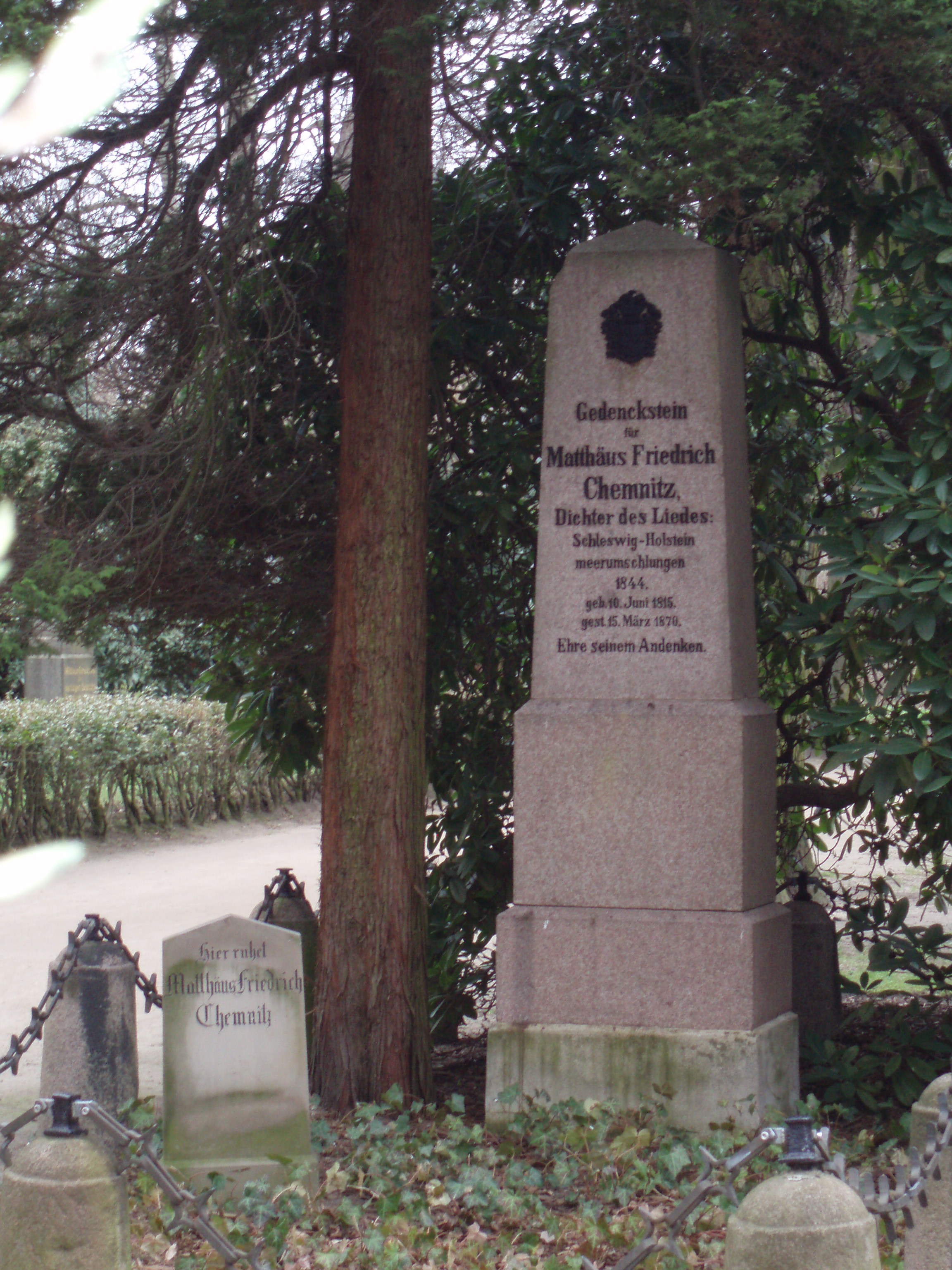 Tombstone and Memorial Obelisk for Matthäus Friedrich Chemnitz, Friedhof Norderreihe Hamburg-Altona This is a photograph of an architectural monument.